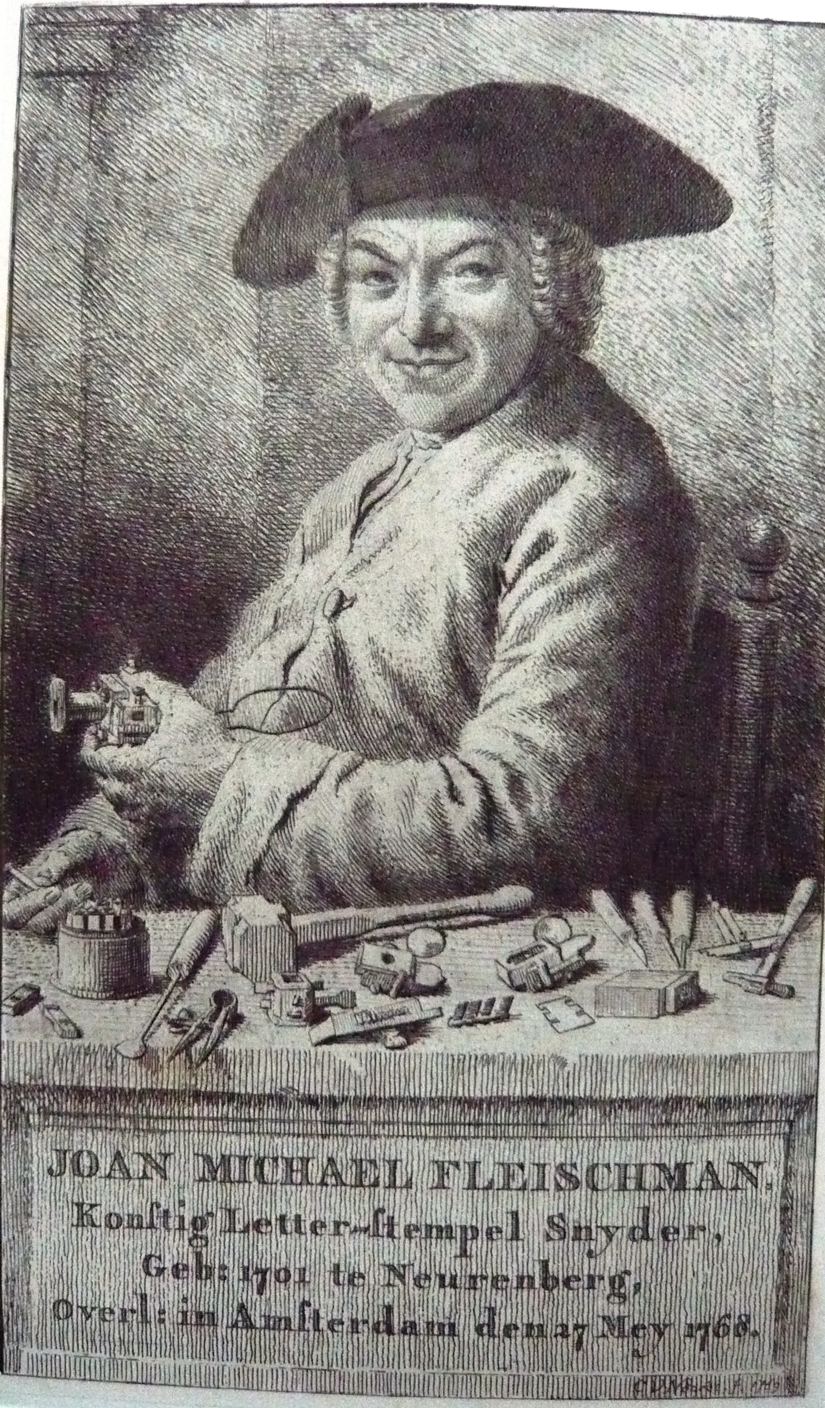 Illustration from Haarlem printing company Joh. Enschedé anniversary publication, produced on the occasion of their 150th anniversary in 1893 Joan Michael Fleischman 1769